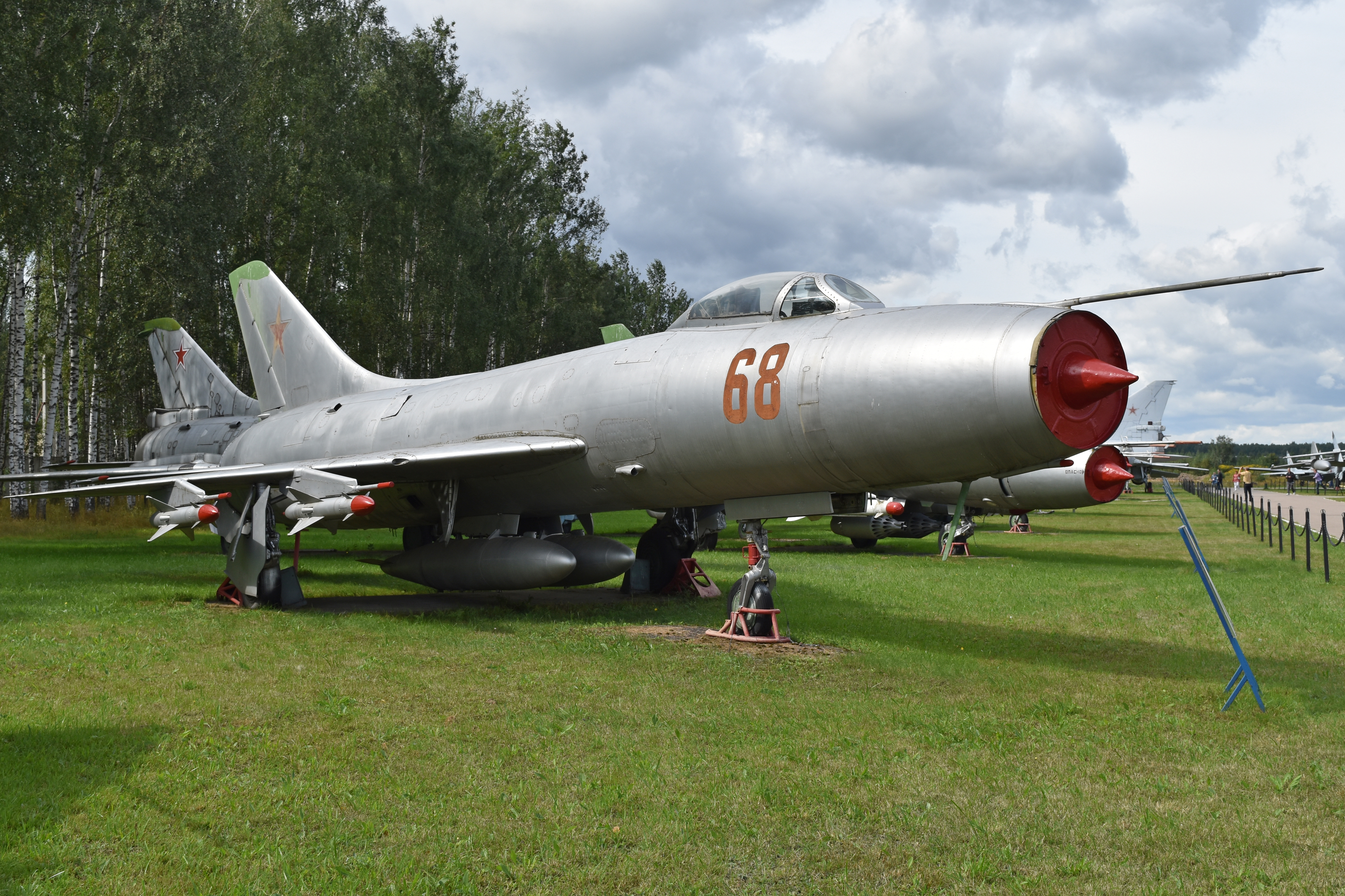 c/n 0615308. Previously coded ’68 green’ NATO codename:- Fishpot Some 1,150 Su-9 fighters were built, and it became a major front line interceptor. An Su-9 was allegedly involved in the May 1960 shoot-down of Gary Powers and his U-2. The Su-9 was on an unarmed delivery flight in the area and the pilot was instructed to ram the U-2. One attempt was made but due to the speed differential it was a miss. In September 1959, a modified Su9 set a new altitude world record of 94,658ft. On display at the Central Air Force museum, Monino, Moscow Oblast, Russia. 27th August 2017